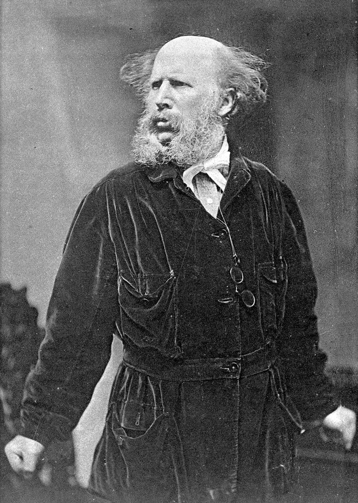 'Shrugging the shoulders' General Collections Keywords: darwin, charles {1809-1882} Plate VI, fig. 2: "The figures 1 and 2 in Plate VI. are fairly good representations of men simulating indignation. Any one may see in a mirror, if he will vividly imagine that he has been insulted and demands an explanation in an angry tone of voice, that he suddenly and unconsciously throws himself into some such attitude."